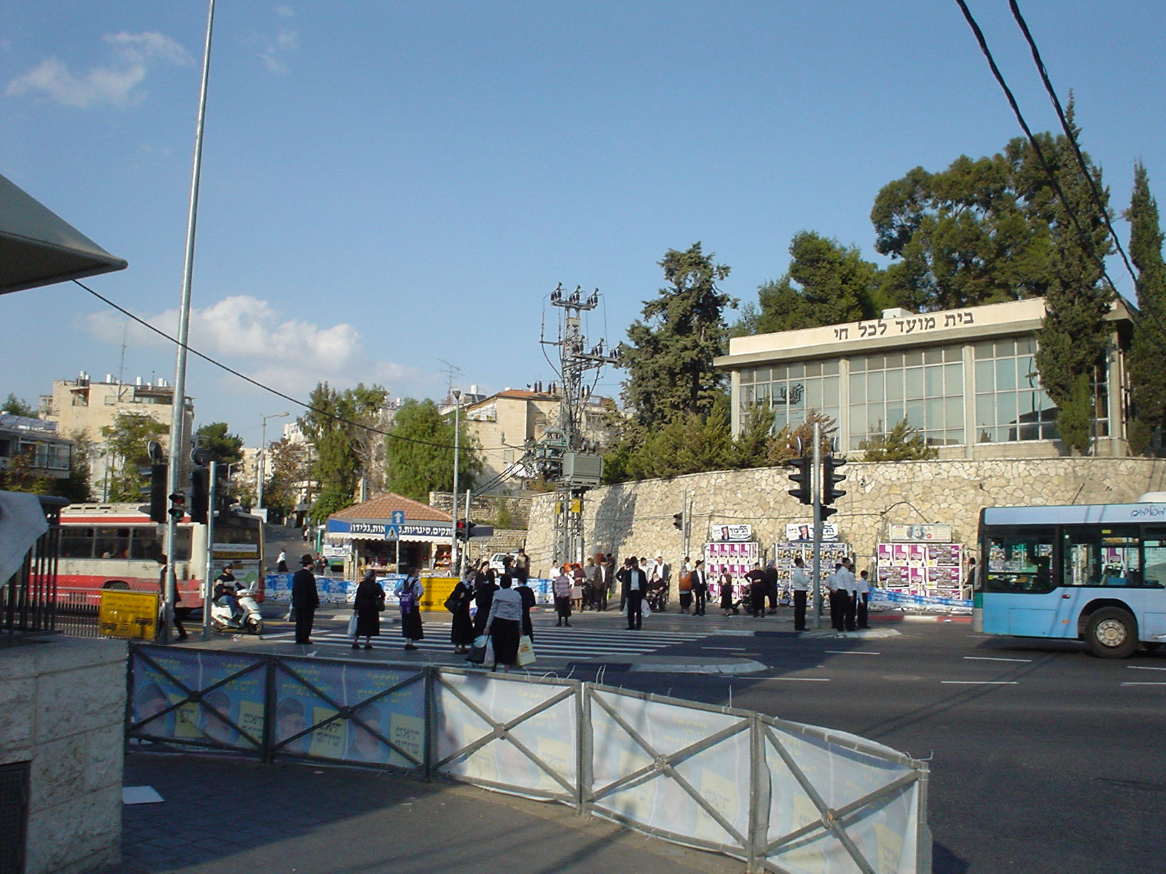 Sanhedria Funeral Parlor (right) overlooking Shmuel HaNavi Street (Tzomet Sanhedria - Sanhedria Intersection). The large lettered Hebrew sign reads: "Meeting Place for All the Living".